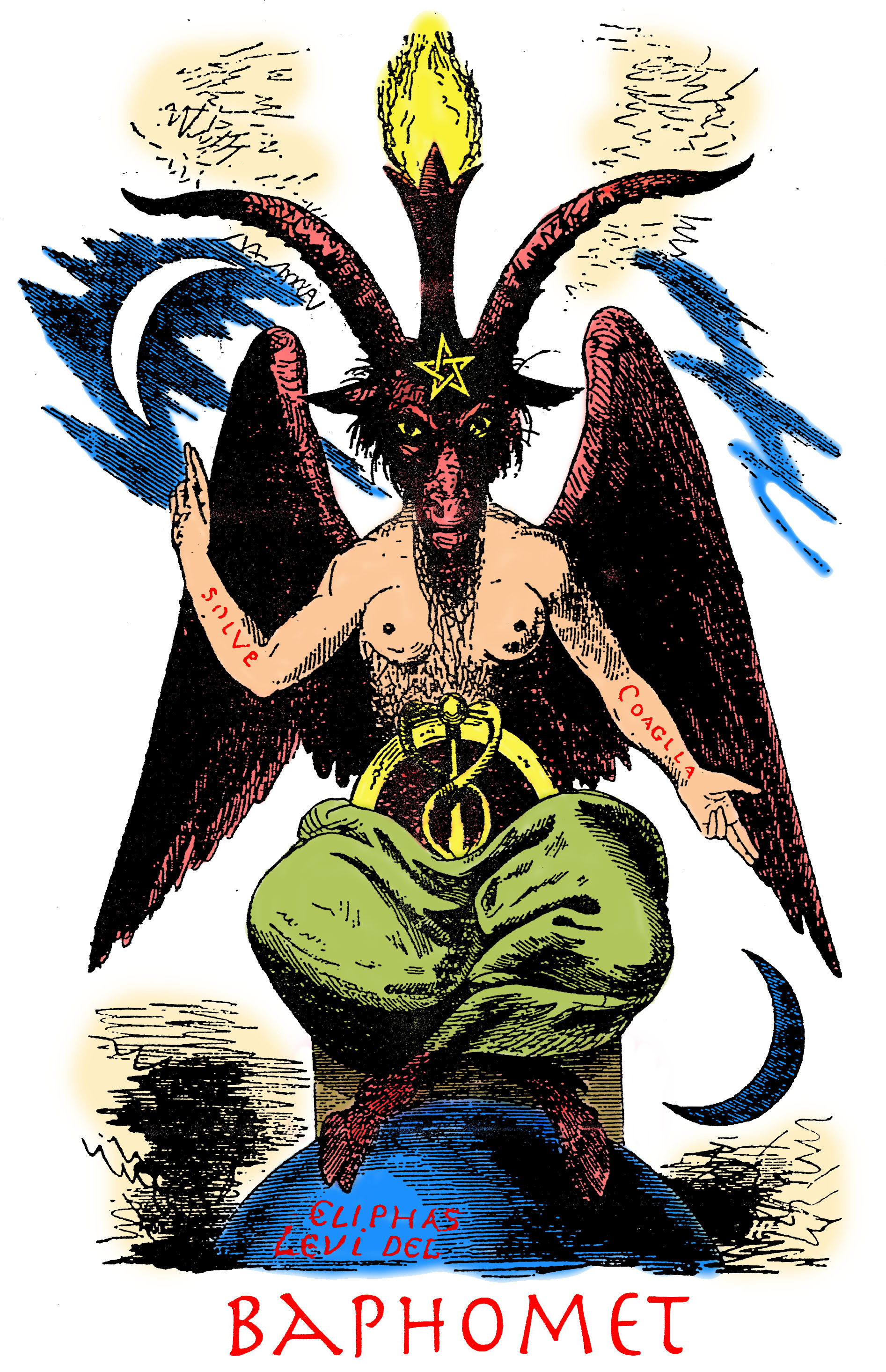 High resolution color tinted verison of Eliphas Levi drawing by David B. Pearson. Original published in Stanislas de Guaita. Le Serpent de la Genèse: Le Temple de Satan. Paris: Librairie du Merveilleux, 1891. Page 0.162.